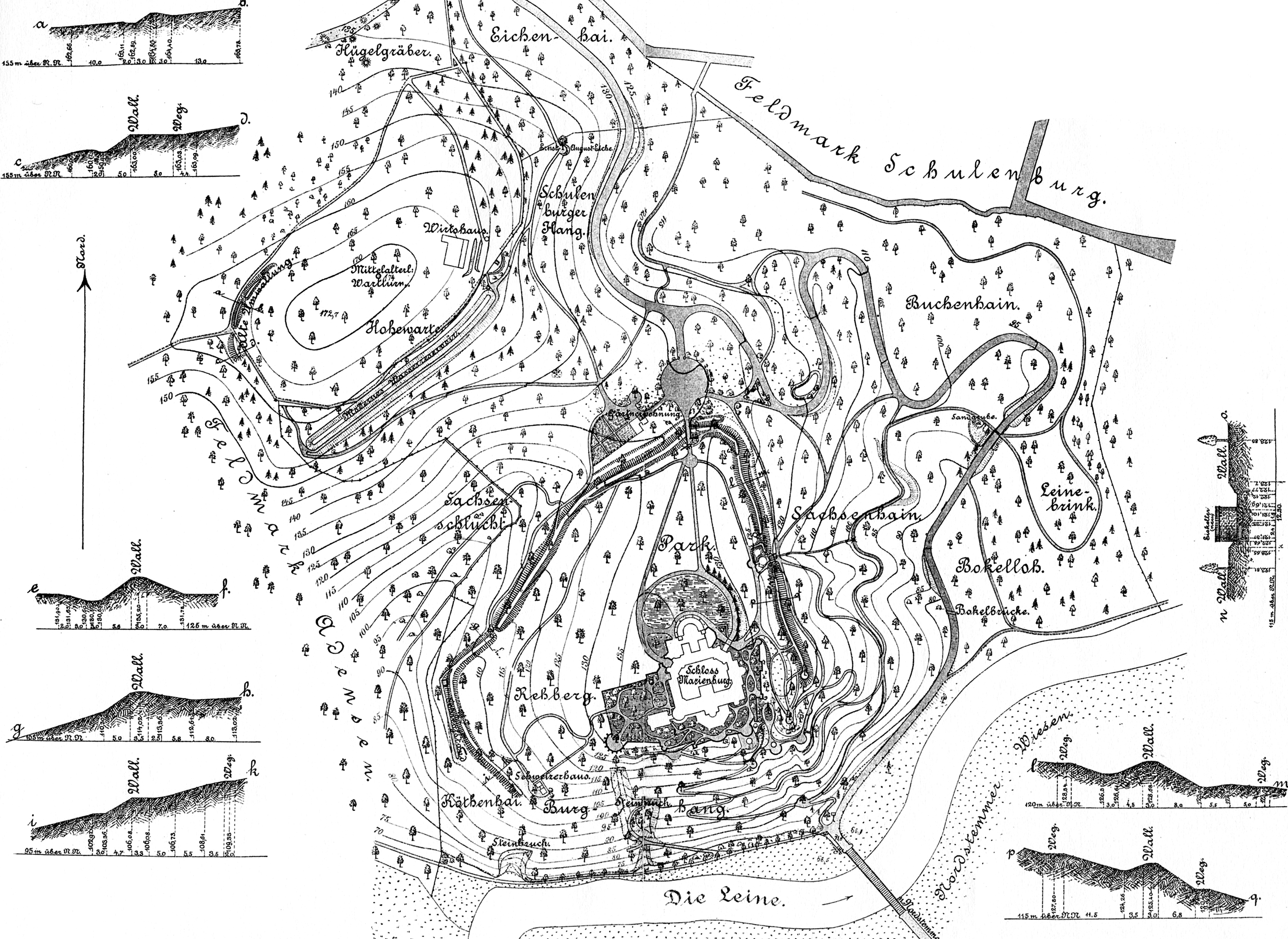 Wall encircling the castle Marienburg near Nordstemmen in Germany